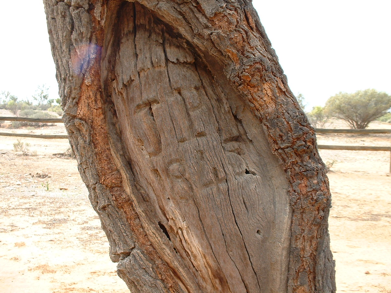 This is the carving on the tree at Depot Glen to mark the grave of James Poole. Poole was second in command of Charles Sturt's Central Australia expedition. He died of scurvy in 1845